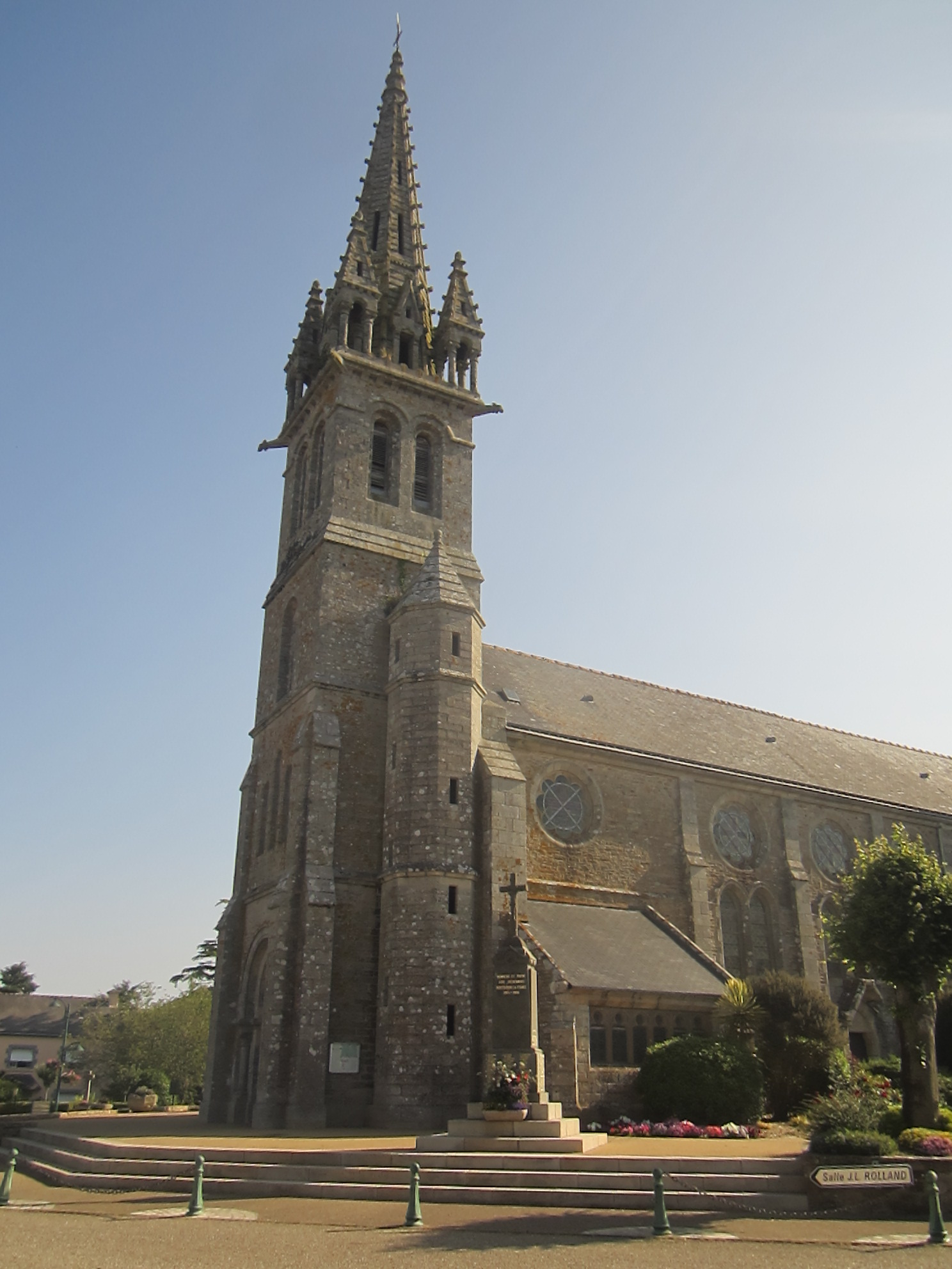 Church of Rédené, Finistère .